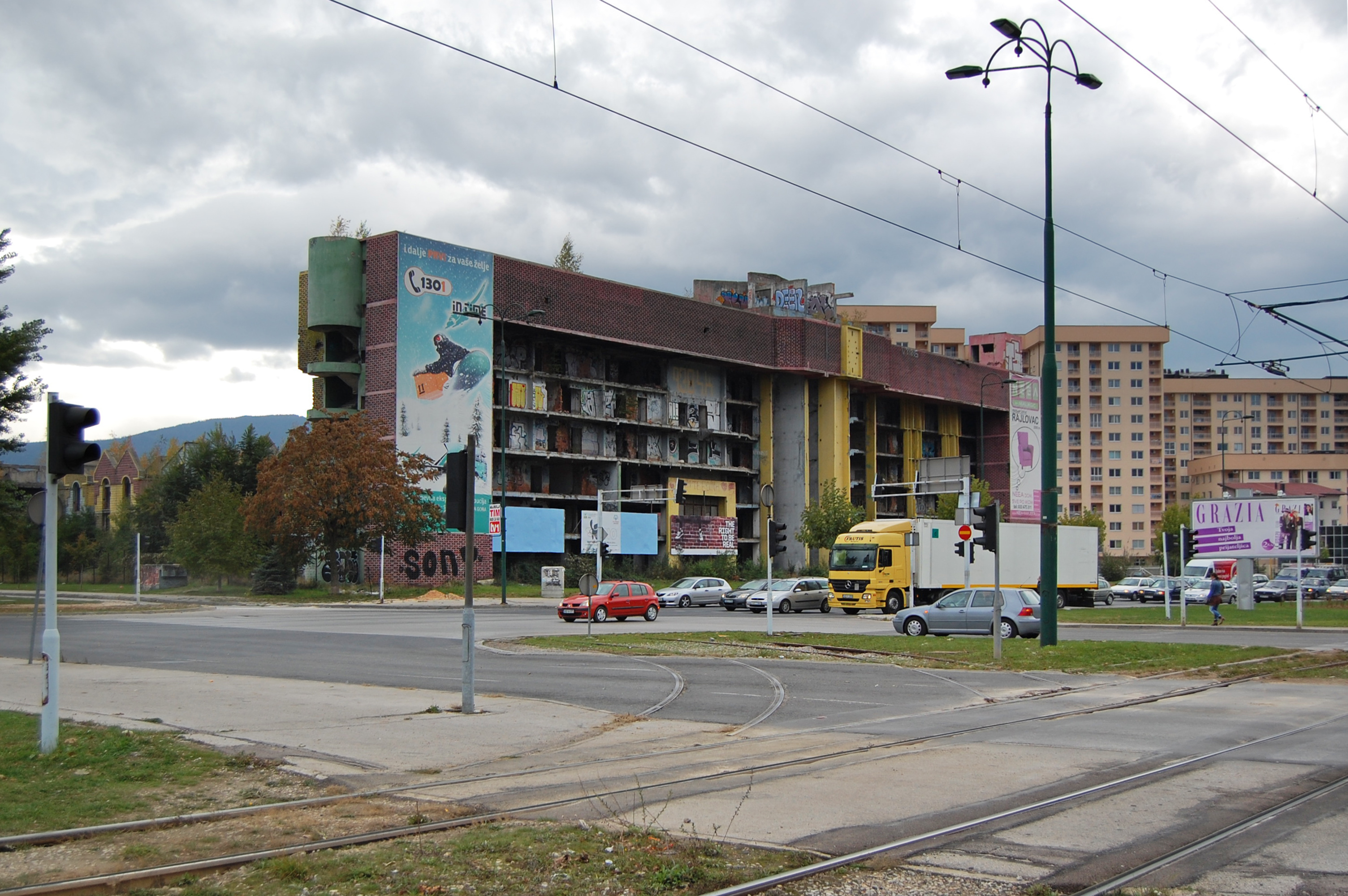 Tram triangle Nedžarići as part of the never completed extension to Dobrinja which was planned in the early 1990s right before the Bosnian War